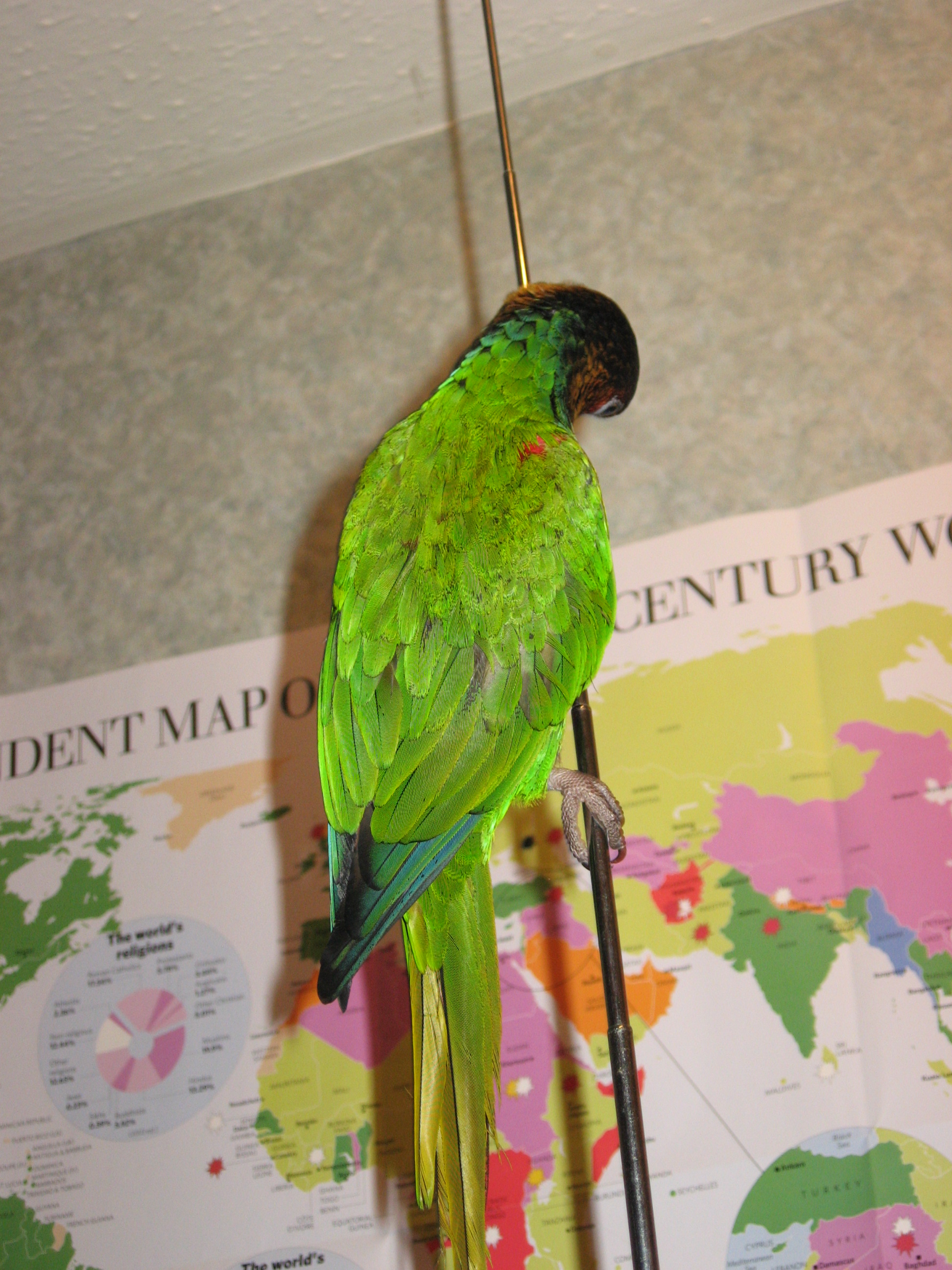 Blue-chested Parakeet (Pyrrhura cruentata) also known as Blue-throated Parakeet or Blue-throated Conure climbing a radio aerial. Photo shows back of the parrot